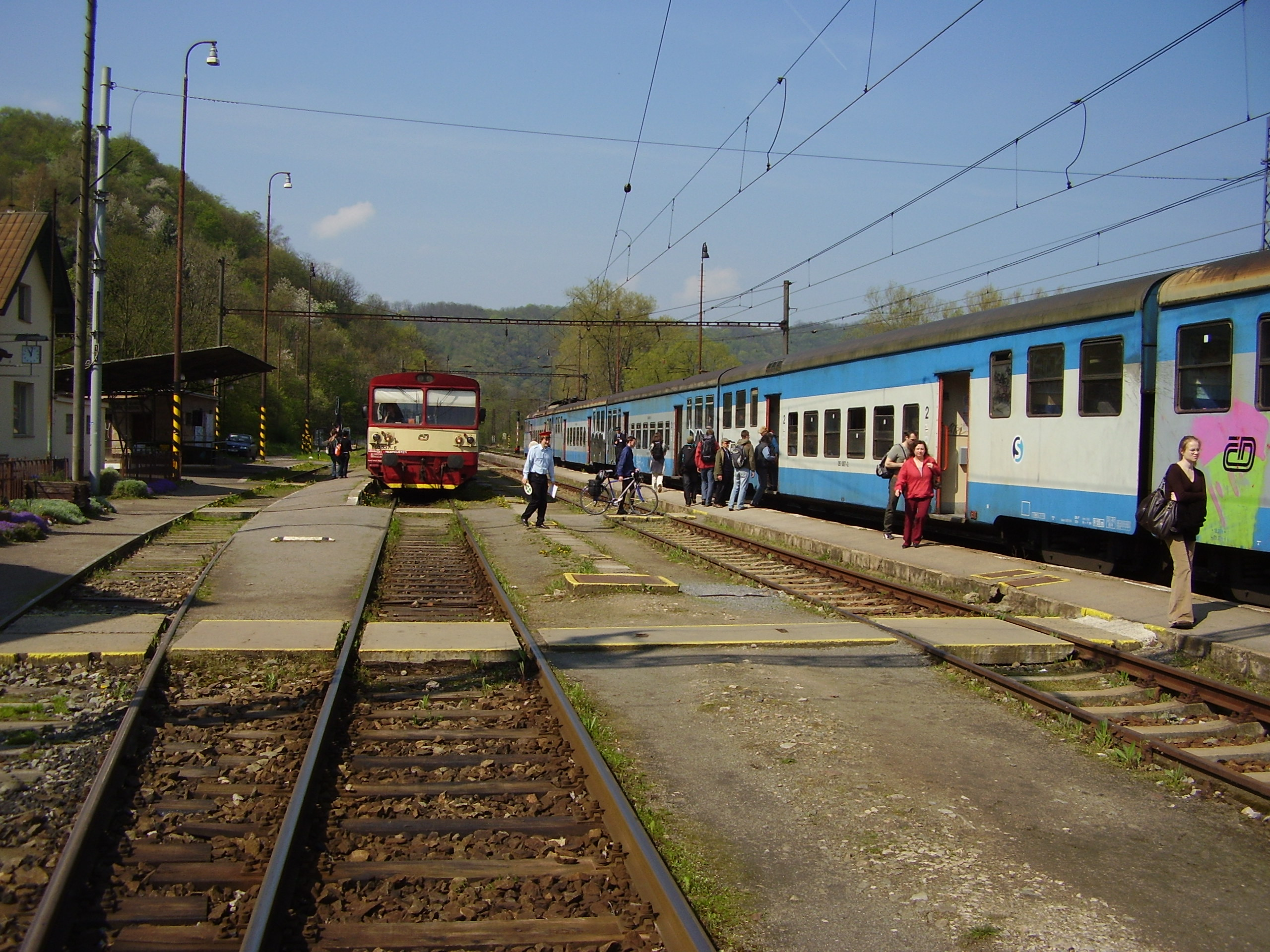 Eletric multiple unit 451 and diesel multiple unit 810 in train station Zadní Třebaň